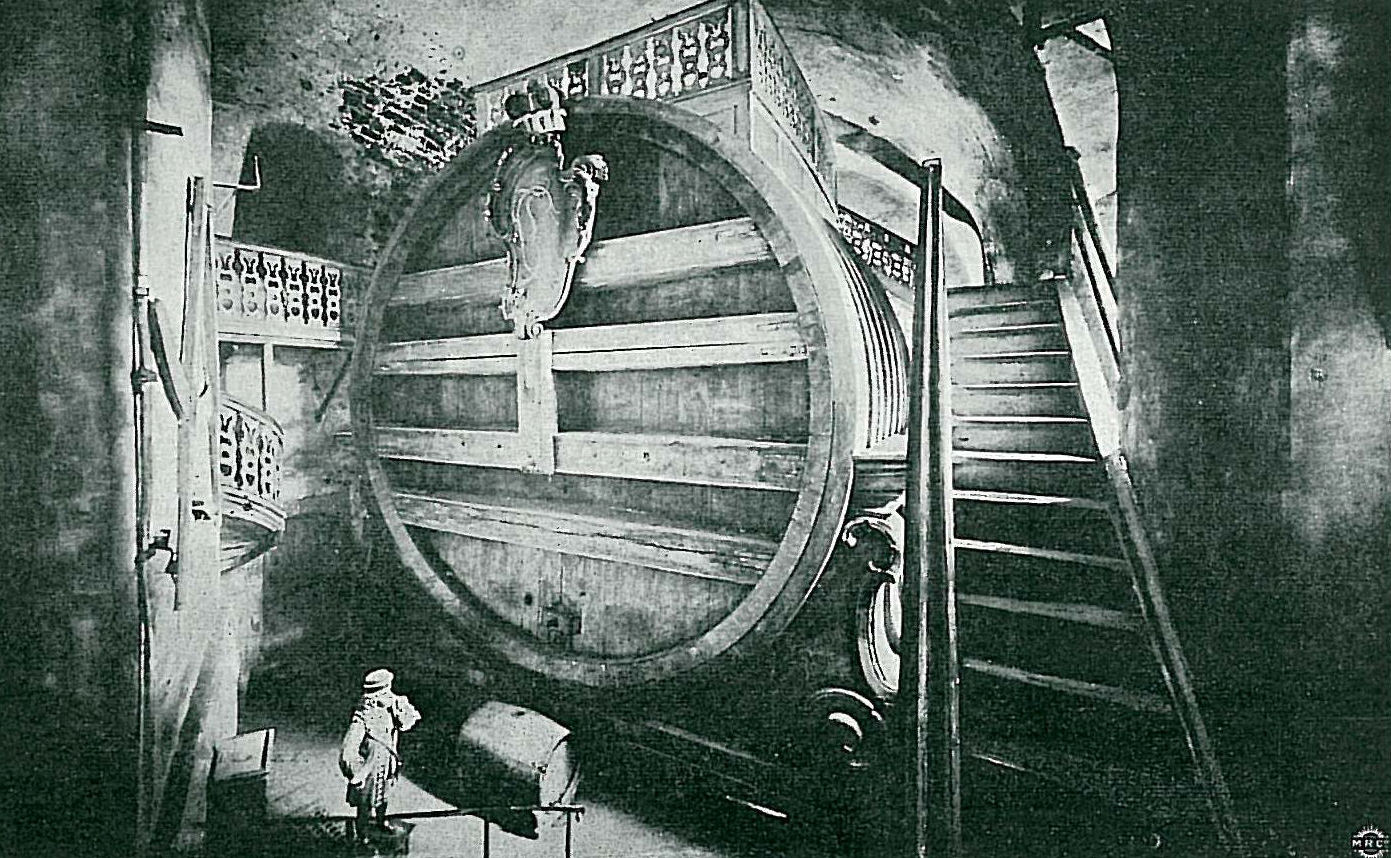 historical view of Heidelberg